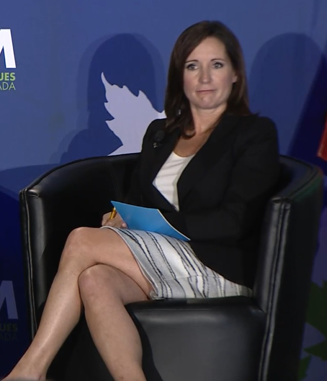 Bloomberg TV Canada's Amanda Lang interviews Finance Minister Bill Morneau at the Public Policy Forum's Growth Summit, Oct. 12, 2016.